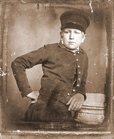 Vedder as a boy copied from original daguerreotype.